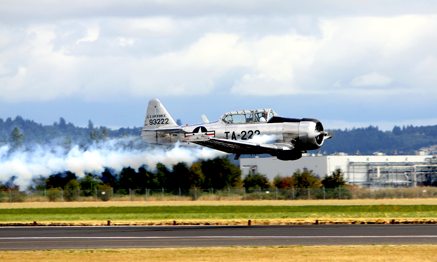 North American T-6 Texan fly by at 2010 - Hillsboro AirShow in Oregon.